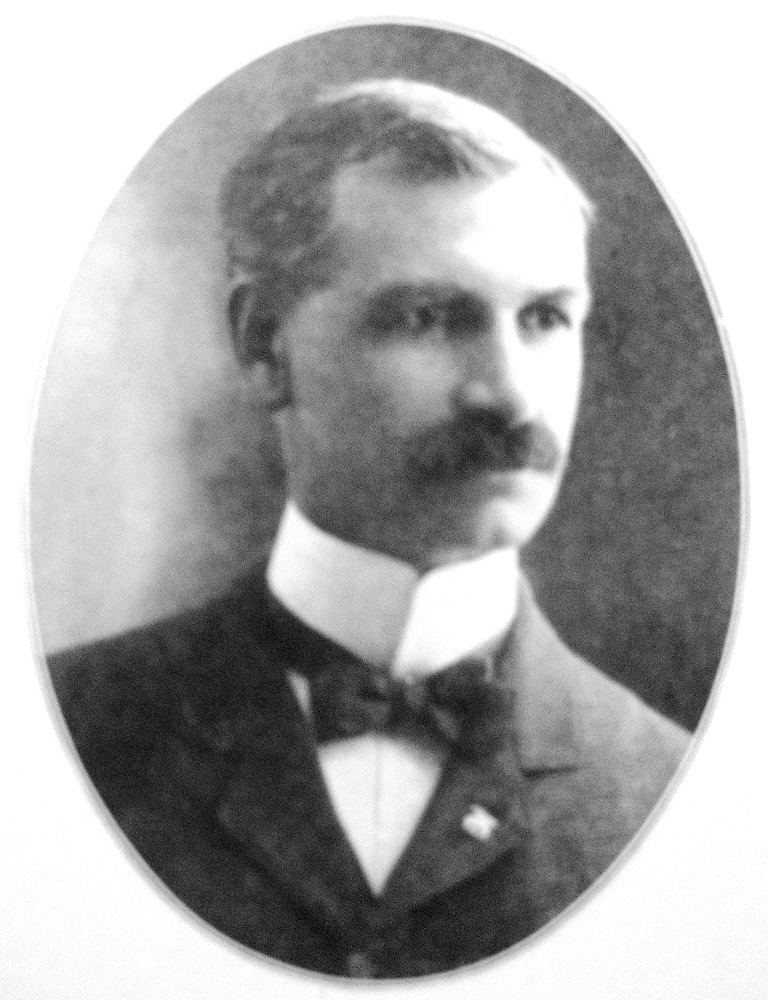 Charles A. Johns